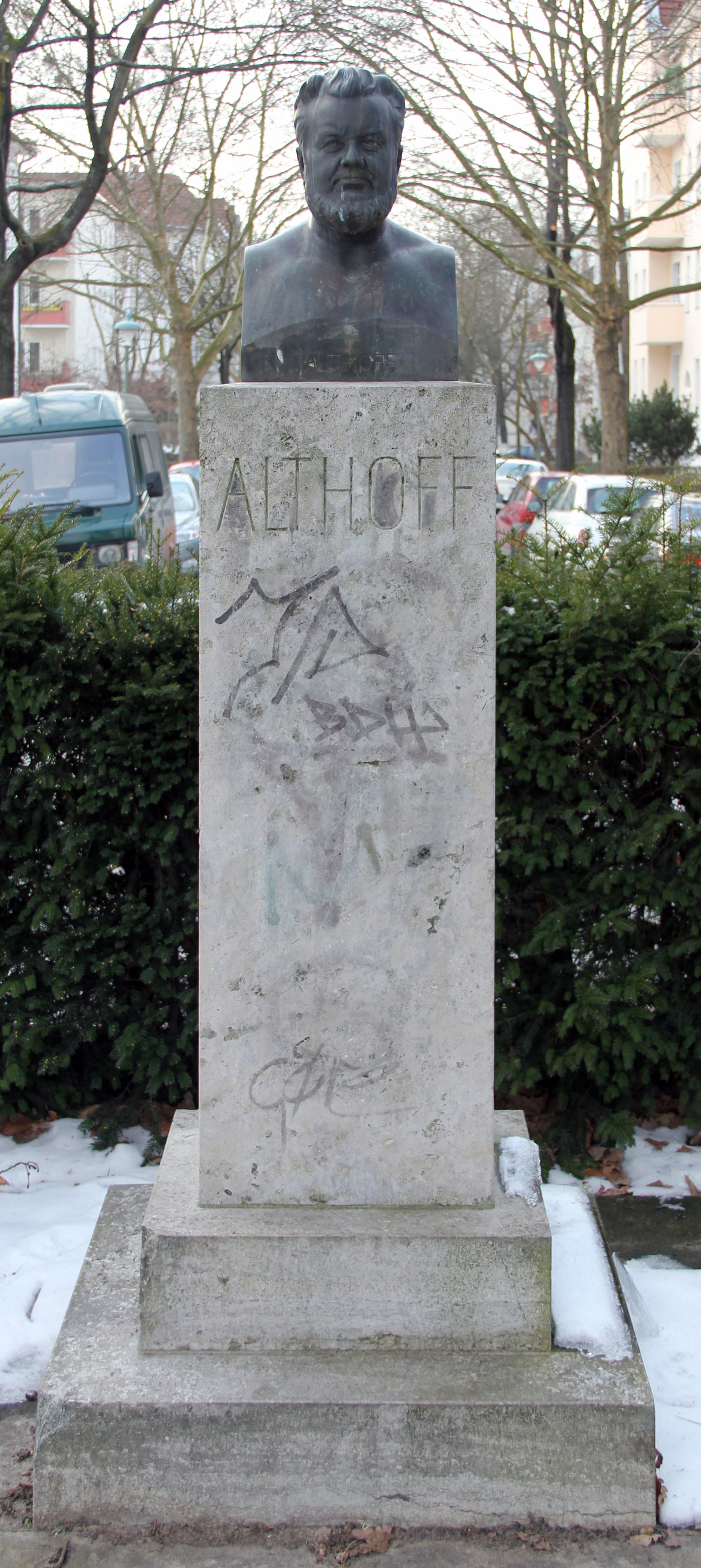 Bust, Friedrich Althoff, by Fritz Schaper, 1908, Althoffplatz, Berlin-Steglitz, Germany